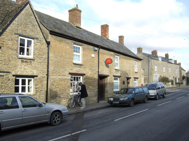 Bampton Post Office On the A4095 Clanfield Road.